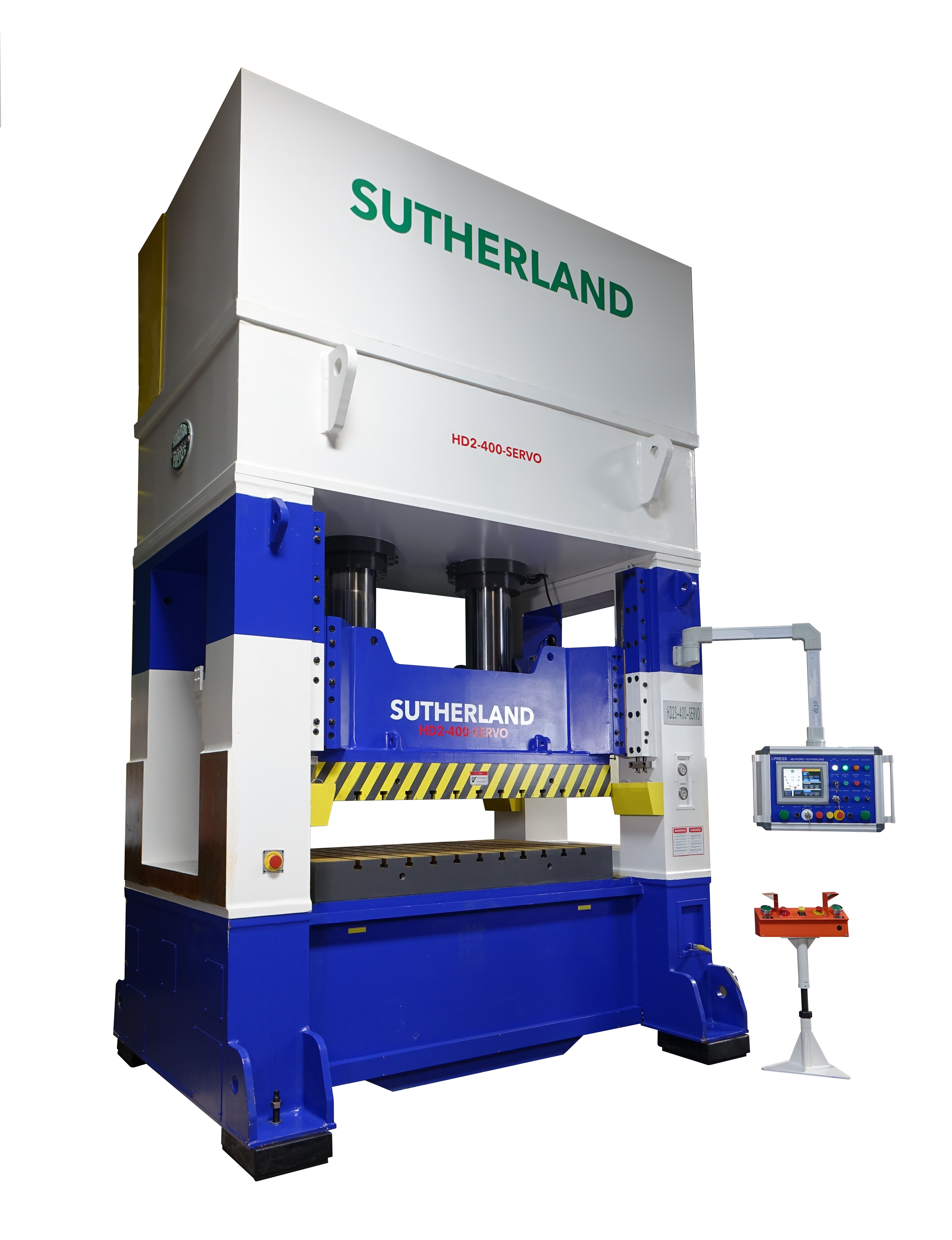 I-PRESS HYDRO press and automation control the servo motor, high pressure pumps and allow users to vary speeds, pressures and positions on the fly throughout the working portion of the cycle.